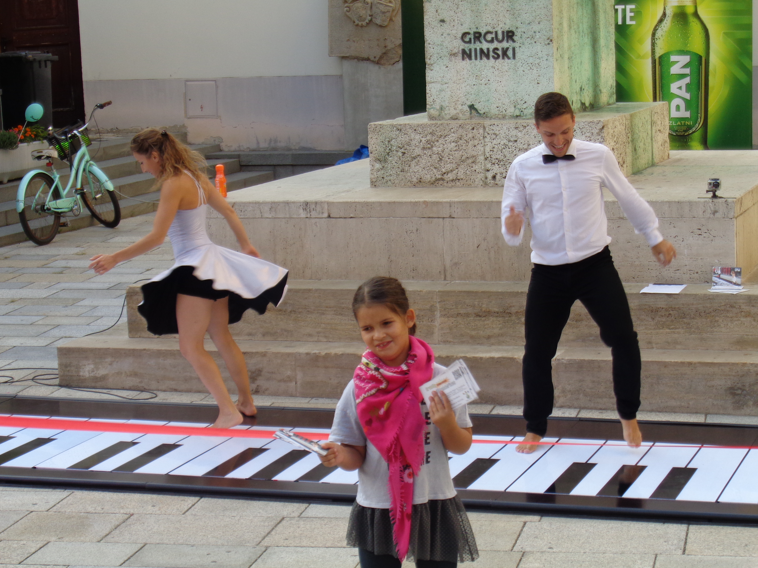 "Špancirfest" street festival, Varaždin, Croatia (2017) - playing by legs on the giant street electronic piano keyboard